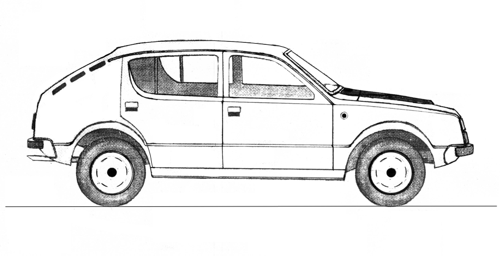 IZH-13 "Start" - a Soviet experimental front-wheel drive automobile, built at the Izhevsky plant in 1968-72. Never was mass-produced. Line drawing made by uploader.